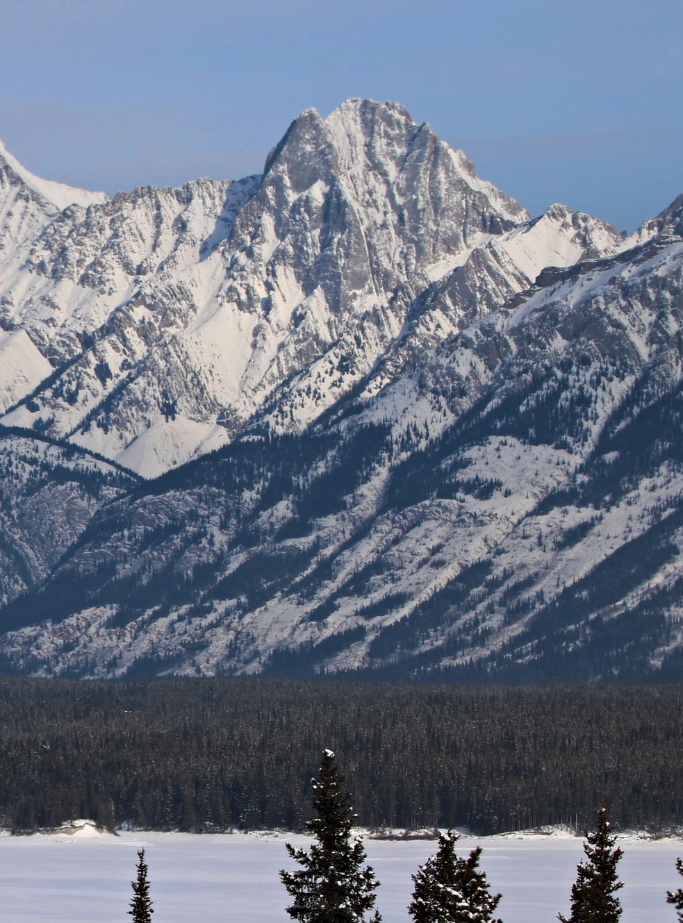 Mount Brock winter. Opal Range, Alberta Canada